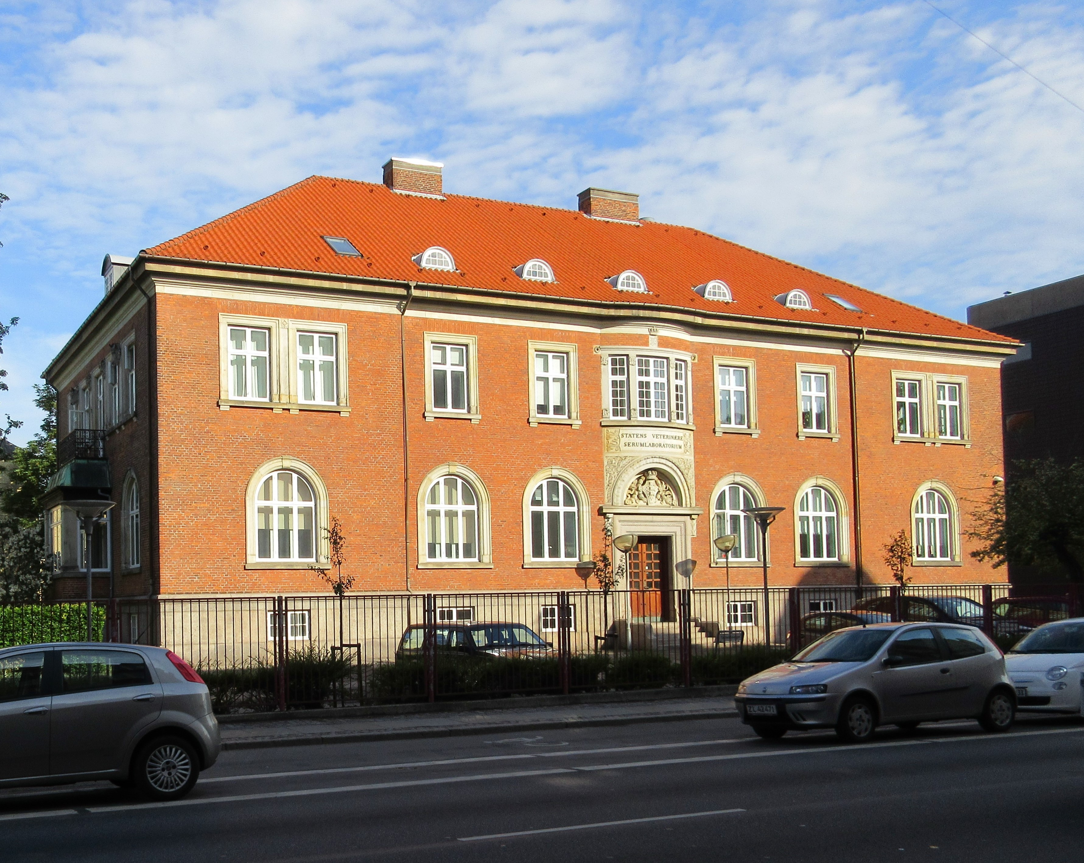 The original of the Danish Veterinary Institute on Bulowsvej in Frederiksberg, Copenhagen, Denmark